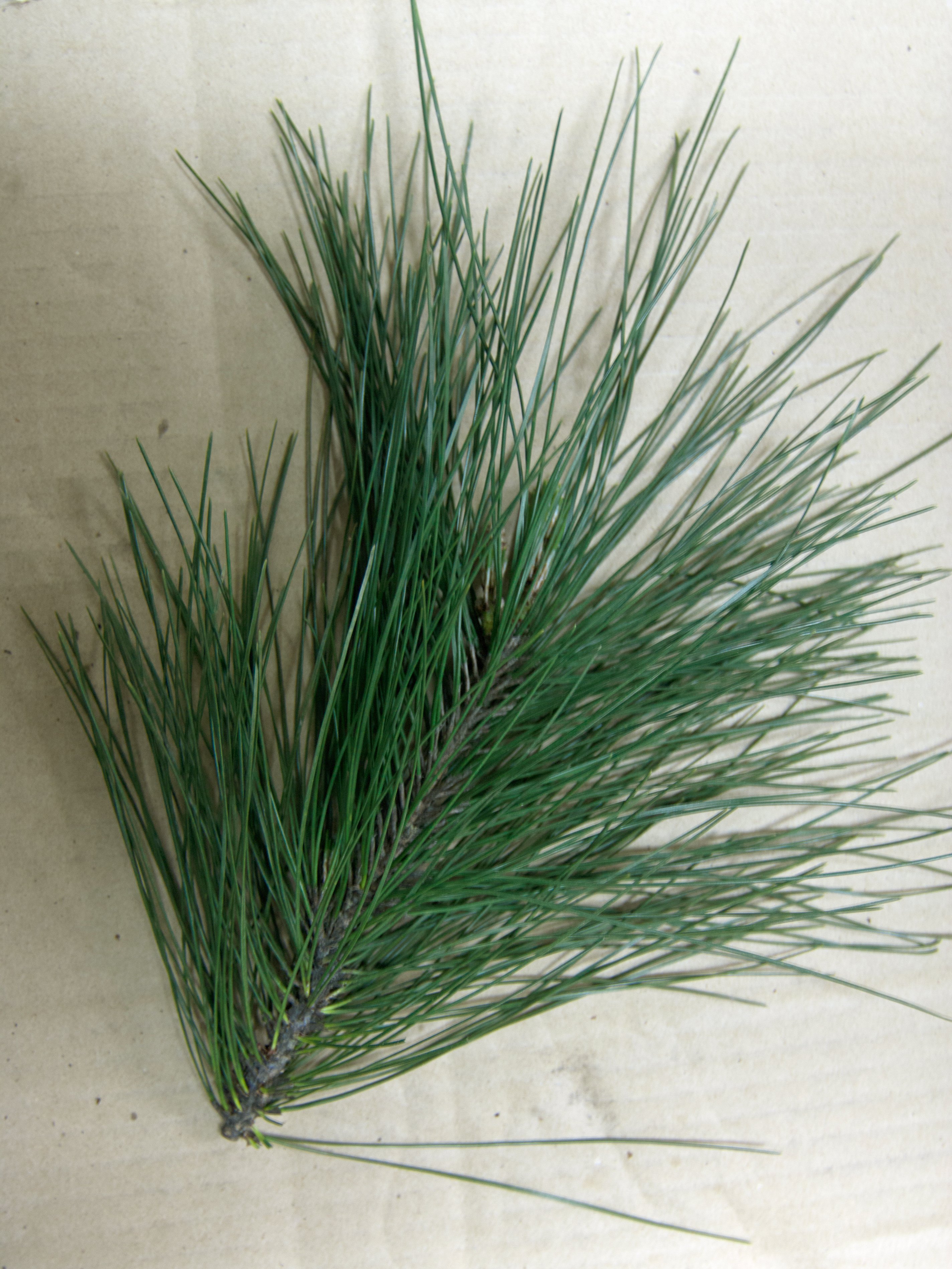 Pinus luchuensis foliage